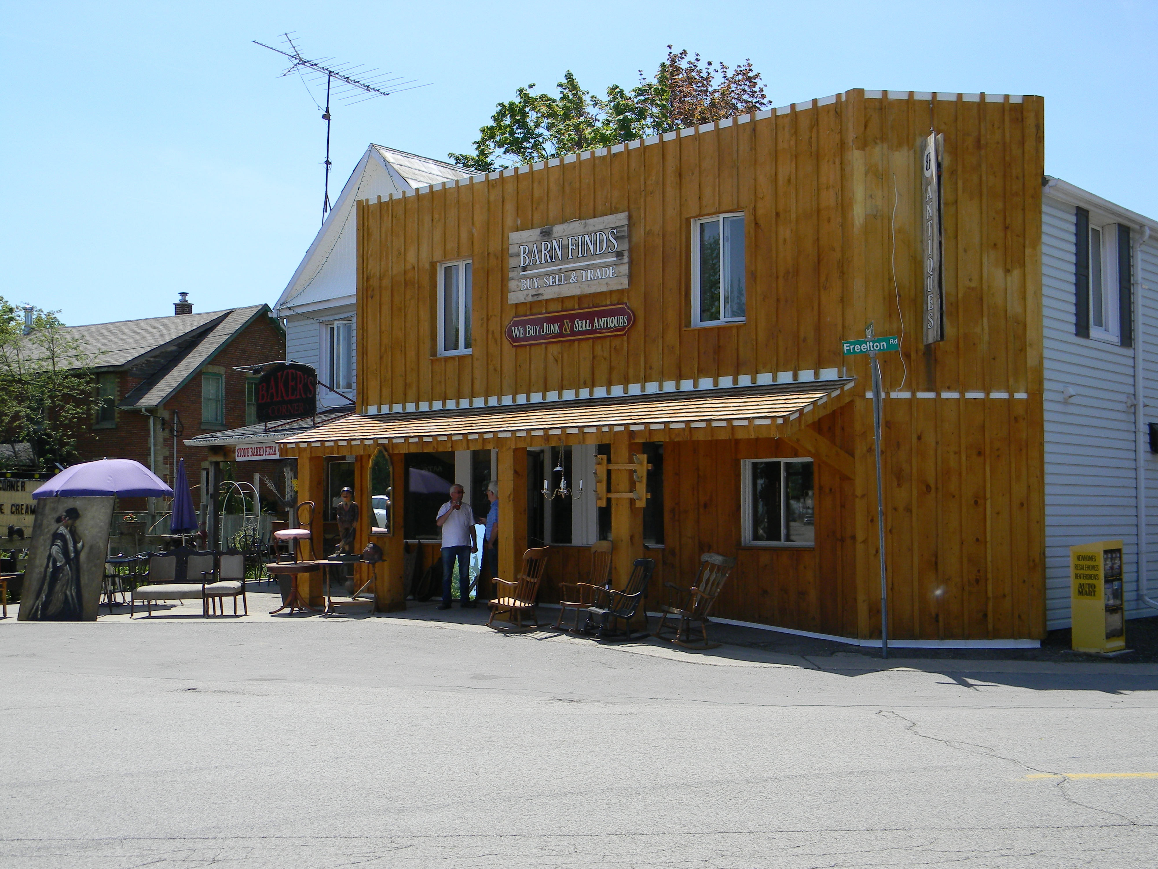 Freelton, Flamborough, Hamilton, Ontario, Canada